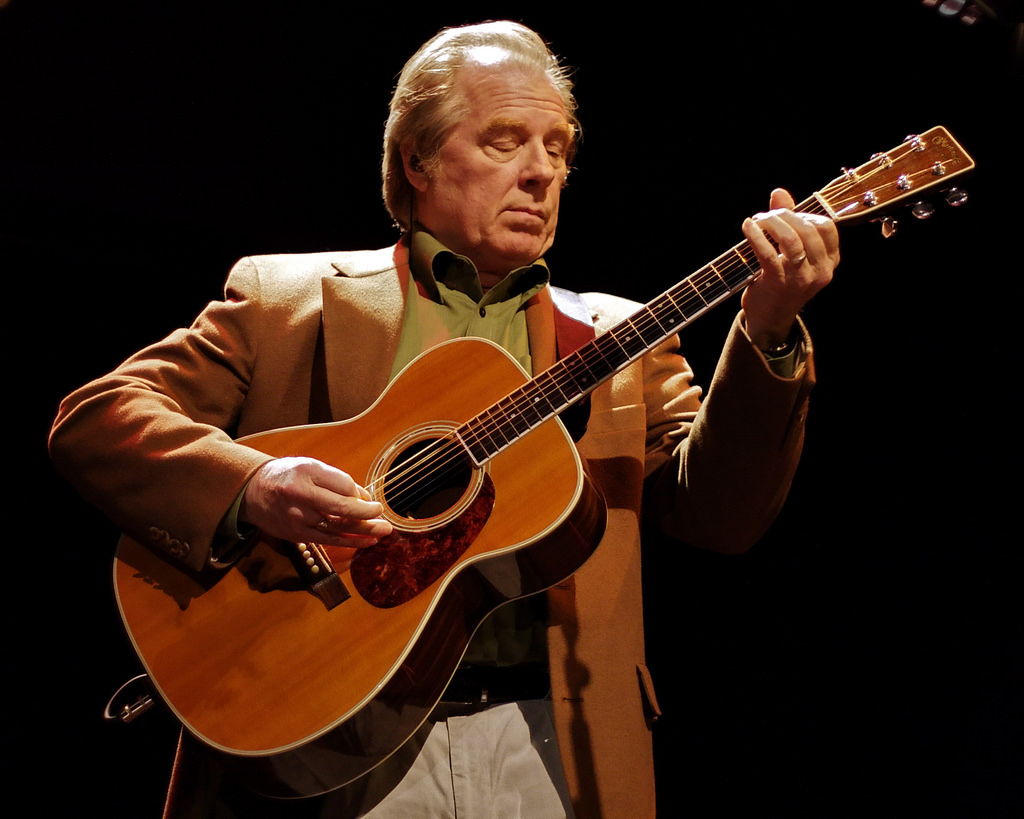 Michael McKean performing in April 2009.